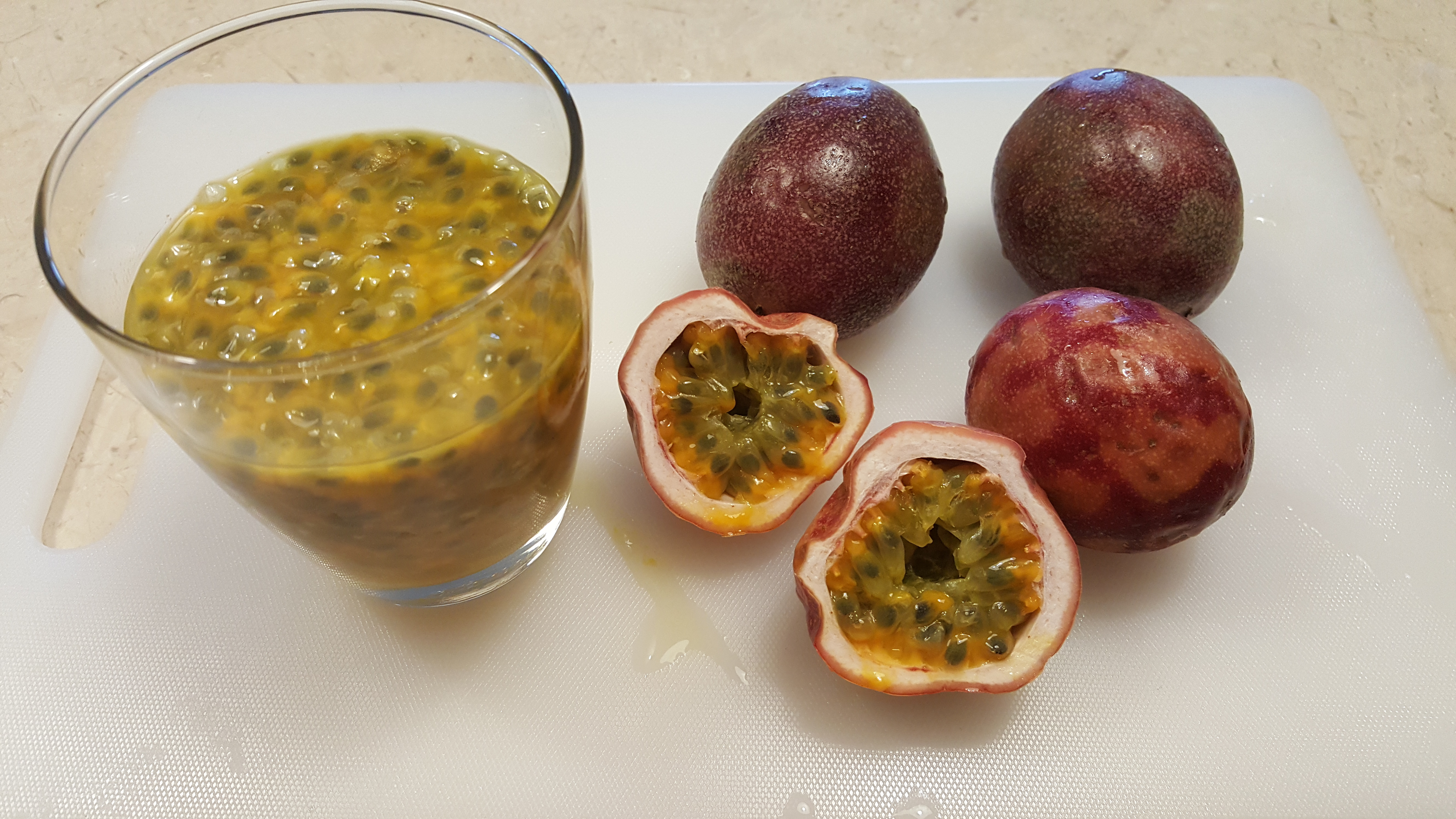 Passion fruit in raw form and juice form.